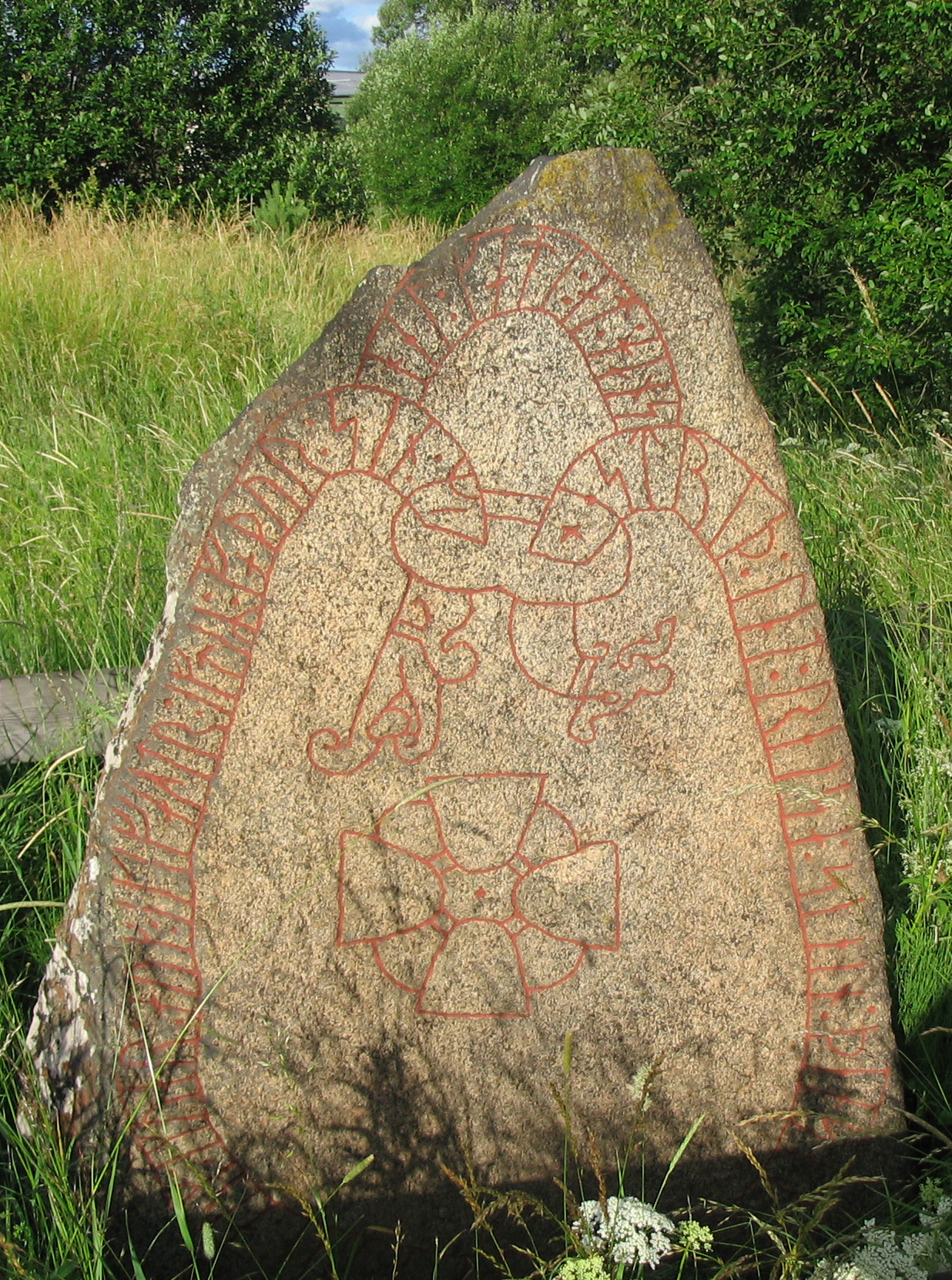 Runestone U478 located at Knivsta south of Uppsala, 11th century (type: Pr1, carving made by Torbjörn). The stone reads: Ástríðr lét reisa stein þenna eptir Jóar/Ívar, bónda sinn, ok Ingvarr ok Ingifastr eptir fôður sinn. Mikjáll gæti ônd hans. Translation of inscription: Ástríðr had this stone raised in memory of Jóarr/Ívarr, her husbandman; and Ingvarr and Ingifastr in memory of their father. May Michael protect his spirit. Curiosity note: if you are travelling by train from Uppsala to Stockholm you should be able to get a quick glimpse of the runestone. It is located on the the left side near the railtrack just before Knivsta station.